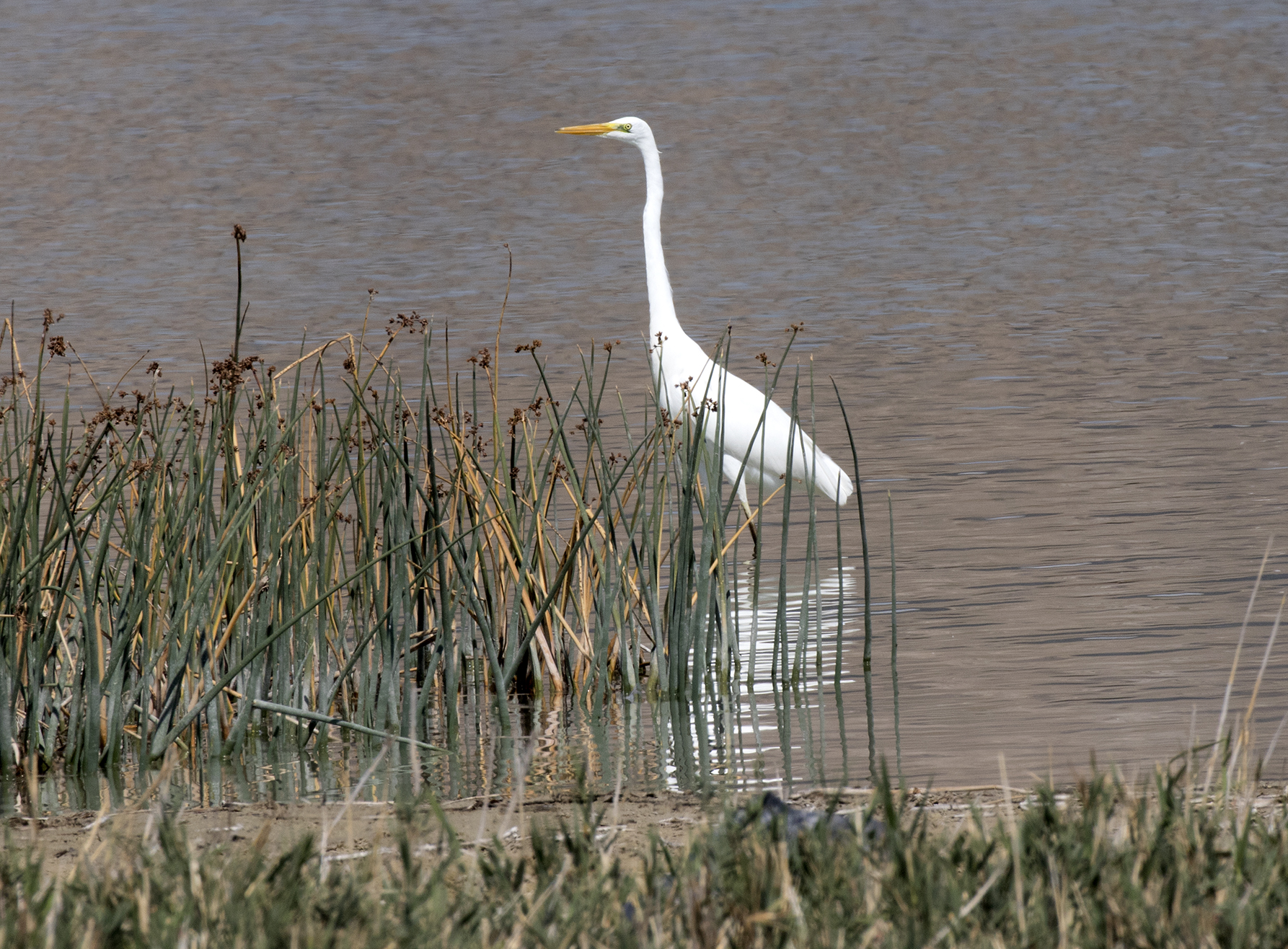 Great Egret (Ardea alba. Lake Tödürge, Hafik - Sivas, Turkey.